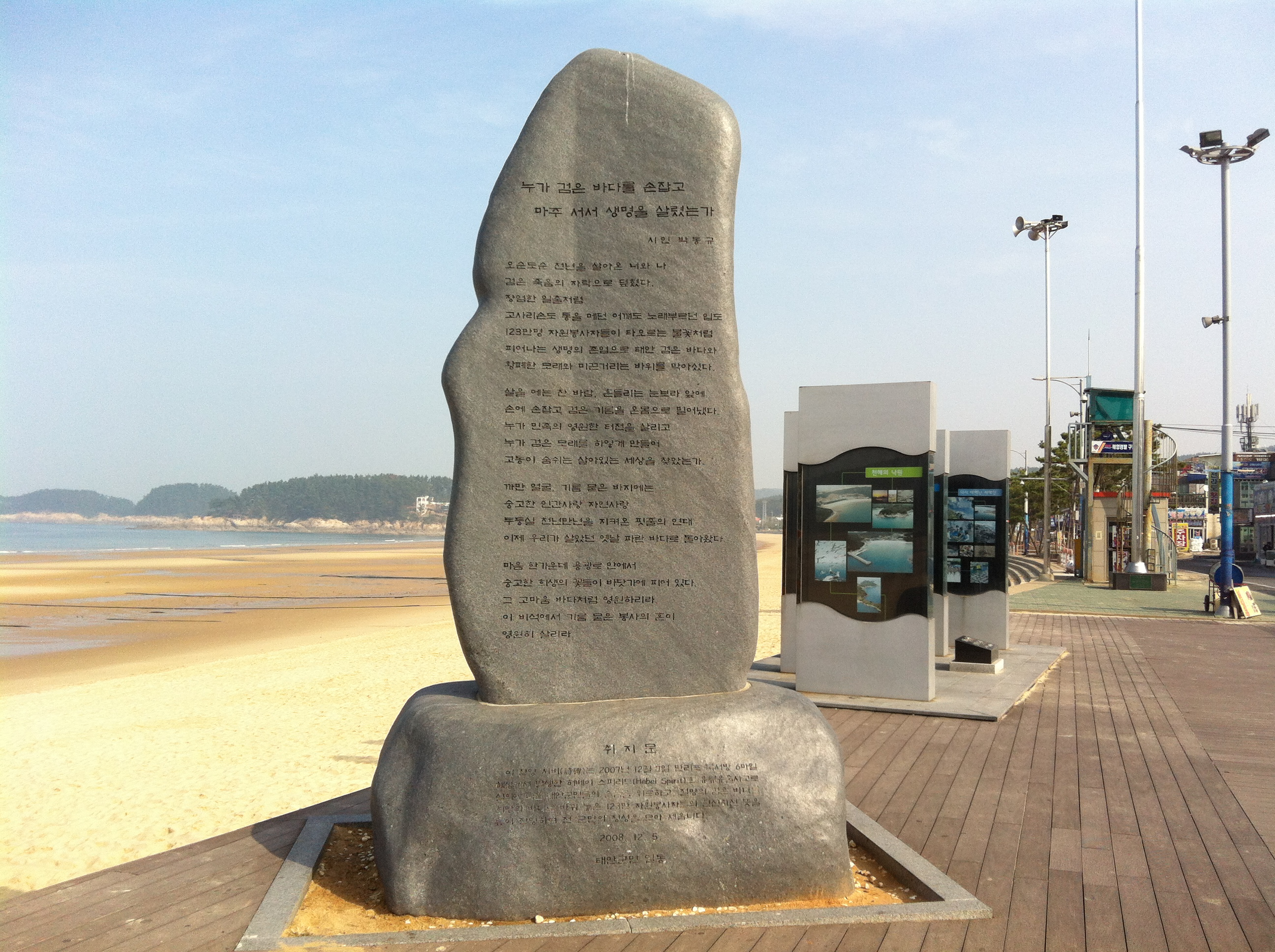 A monument of 2007 Samsung-Hebei Spirit oil spill at Manripo beach, Taean, Chungcheongnam-do, South Korea